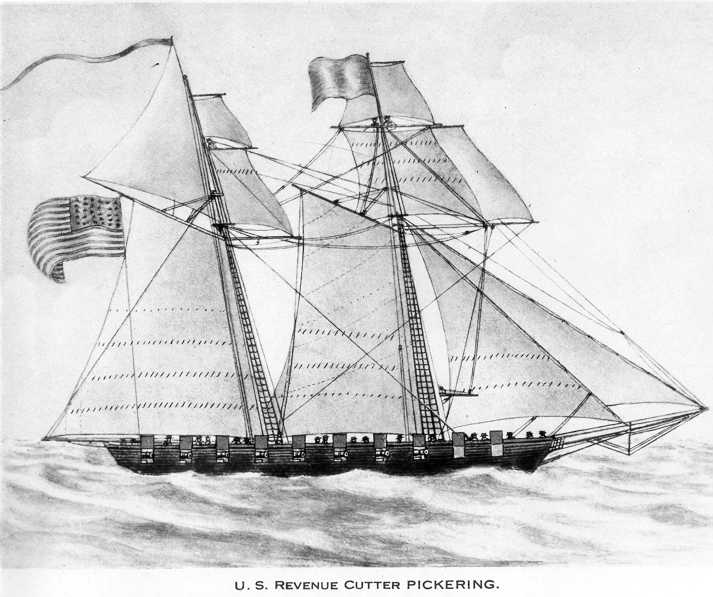 United States Revenue Cutter Service Ship Pickering, later renamed to USS Pickering